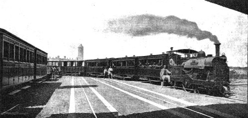 Photograph of the Larmanjat train in Portugal, probably on the Portas do Rego, in Lisbon. The train on the right is composed by the "Lumiar" locomotive, 3 first class carriages, and several third class carriages.